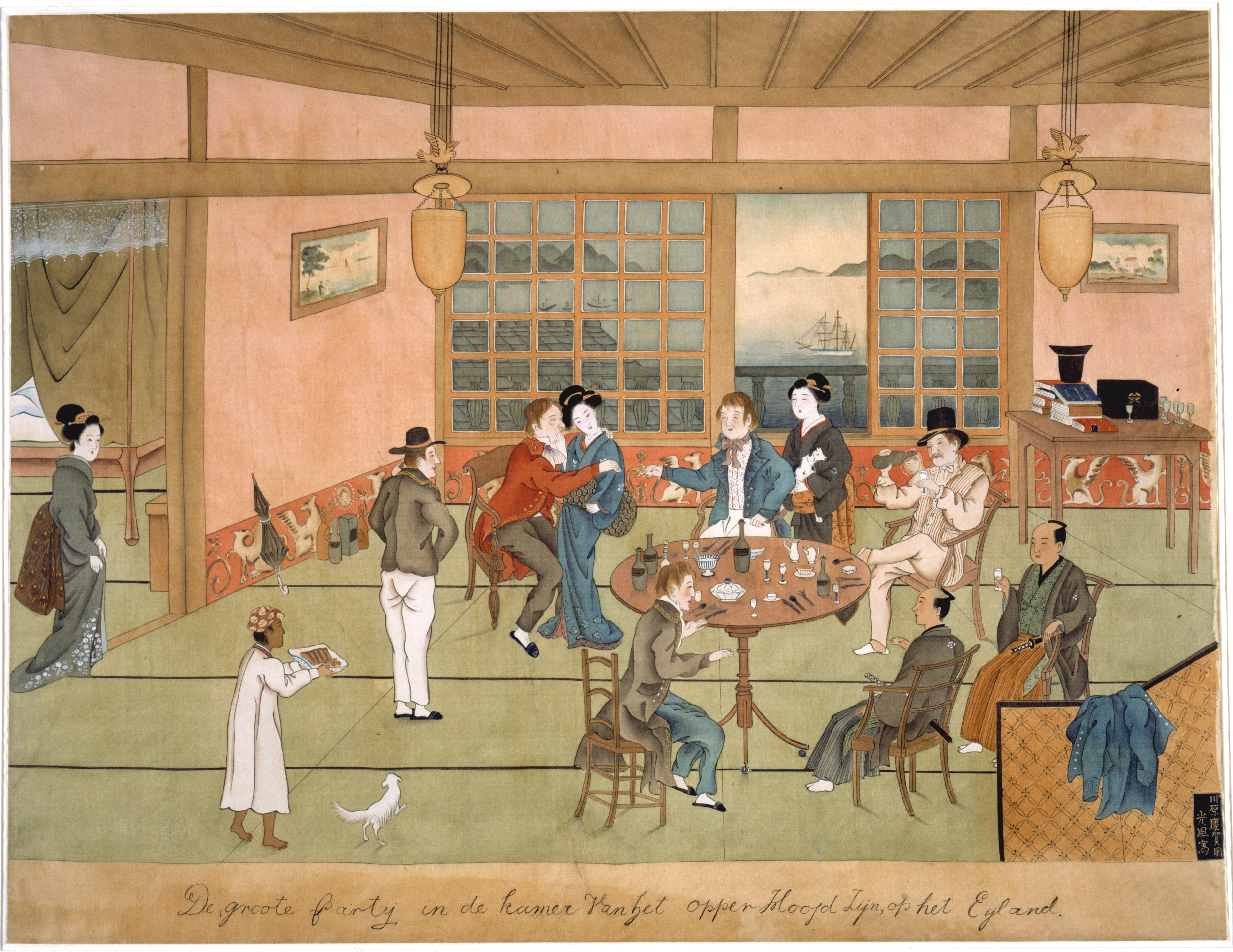 A depiction of a party in the house of the Dutch chief of Dejima. It has been a custom for a long time to invite the Japanese interpreters and civil servants from Nagasaki to a dinner party on January 1st. This probably is such an event.